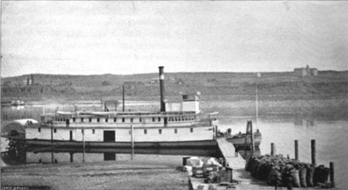 Sternwheel steamer Regulator, ca 1892, loading freight on the Columbia River, probably at The Dalles, Oregon.